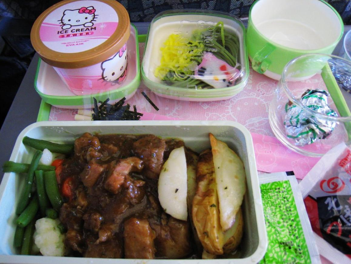 EVA Air meal